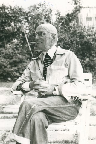 Edmond Boissonnet